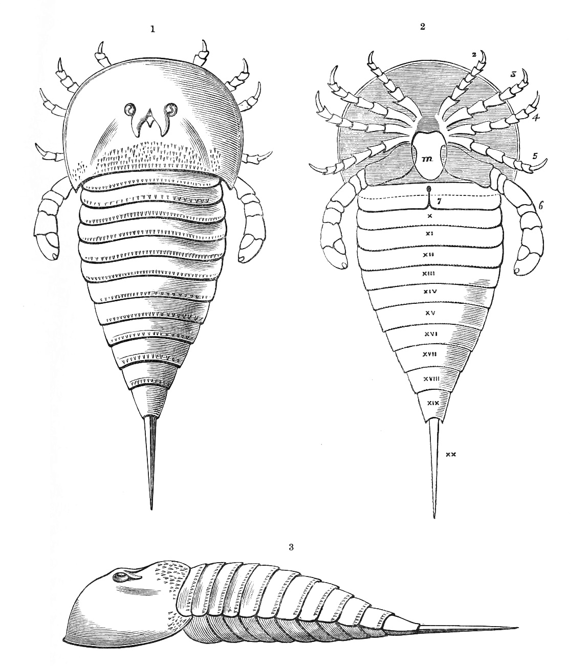 Eurypterus scouleri, Hibbert (restored). From the Freshwater Limestone of Carboniferous Coal-measures, Burdie House, near Edinburgh. 1. Dorsal view. 2. Ventral aspect. 3. Side view.